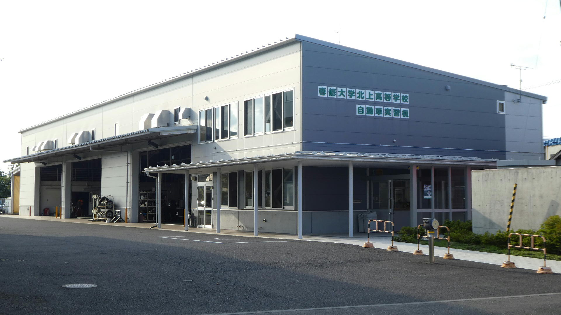 Senshu University Kitakami High School, Automobile Training Building of Automotive course.